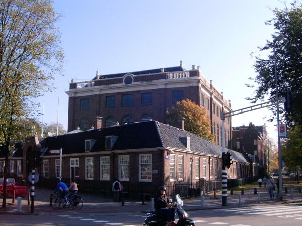 The Amsterdam Esnoga, the synagogue for the Portuguese-Israelite (Sephardic) community